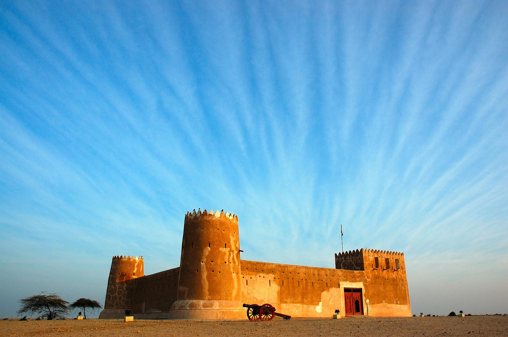 Zubara Fort - Situated just 100 km west of Doha lies the town of Al Zubara, an important archeological site famous for its old fort. This fort-turned-museum was constructed in 1938 during the reign of Sheikh Abdullah bin Jassim Al Thani and was erected on the ruins of a neighbouring fort.